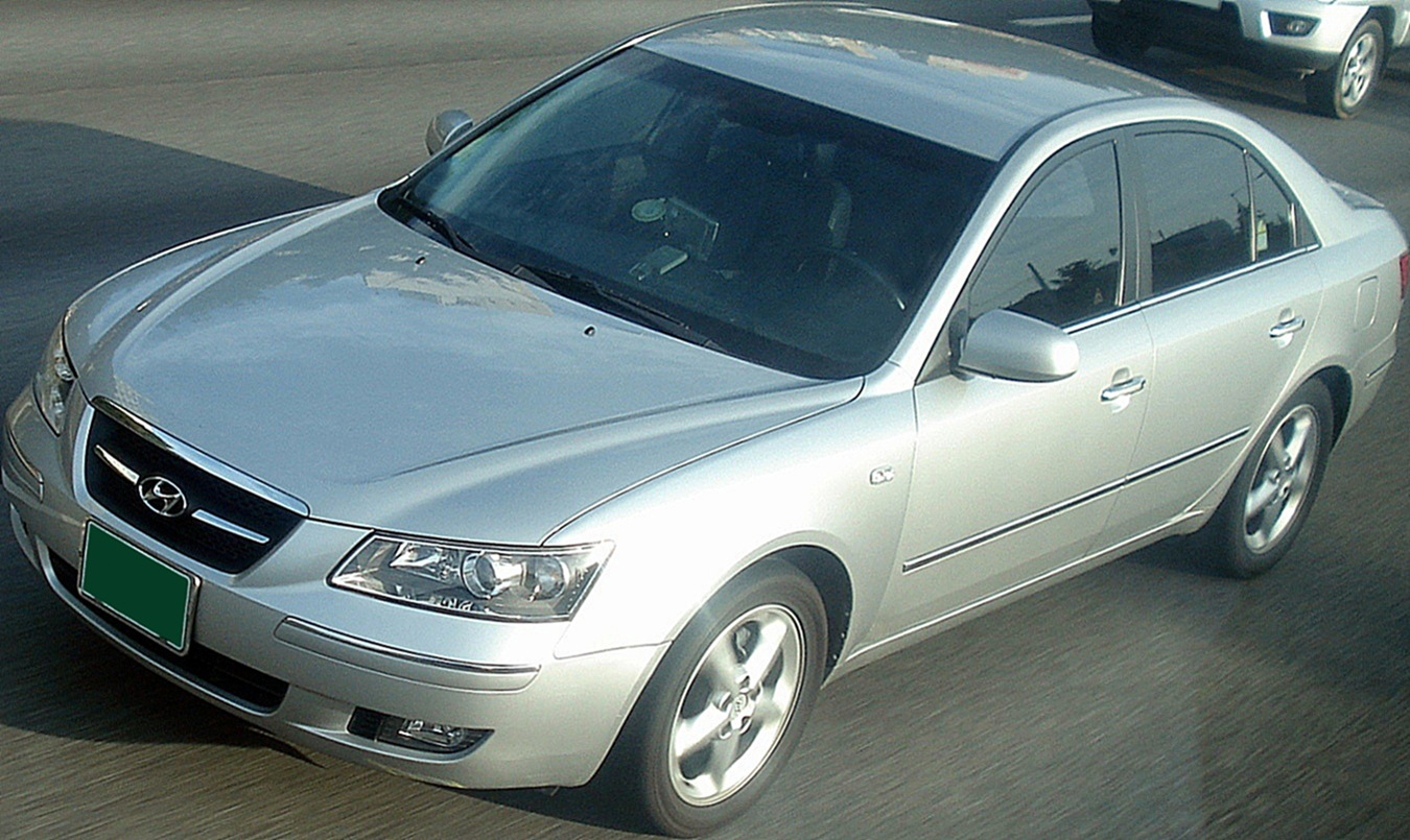 Hyundai Sonata